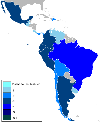 Map of the countries visited on the amazing race en discovery channel